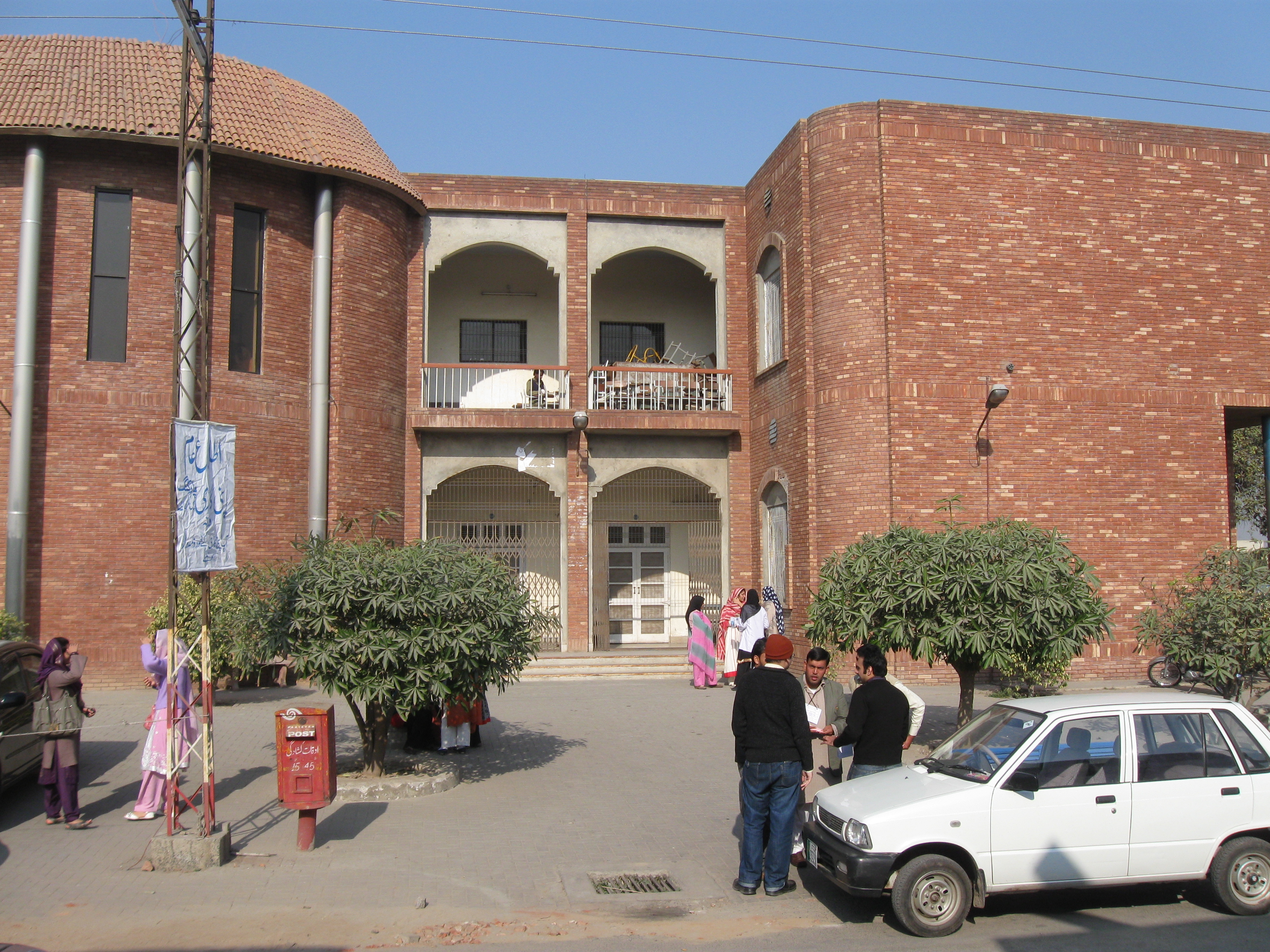 Examination Hall of Punjab Medical College